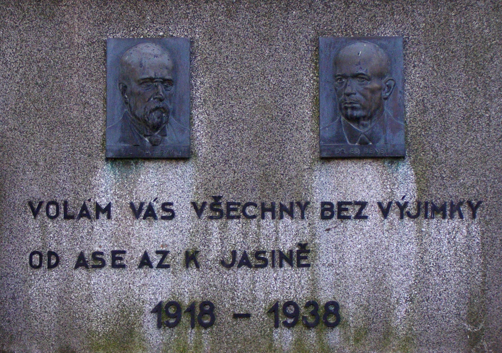 Třebíč-Týn. Jubilee park. Plaque with pictures of T. G. Masaryk and E. Beneš, Czechoslovak presidents, and a quotation „I call you all without any exception, from Aš to Jasina; 1918–1938“ (in Czech)